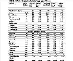 Eggs of Balut2